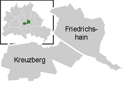 Districts within the borough of Friedrichshain-Kreuzberg in Berlin, Germany